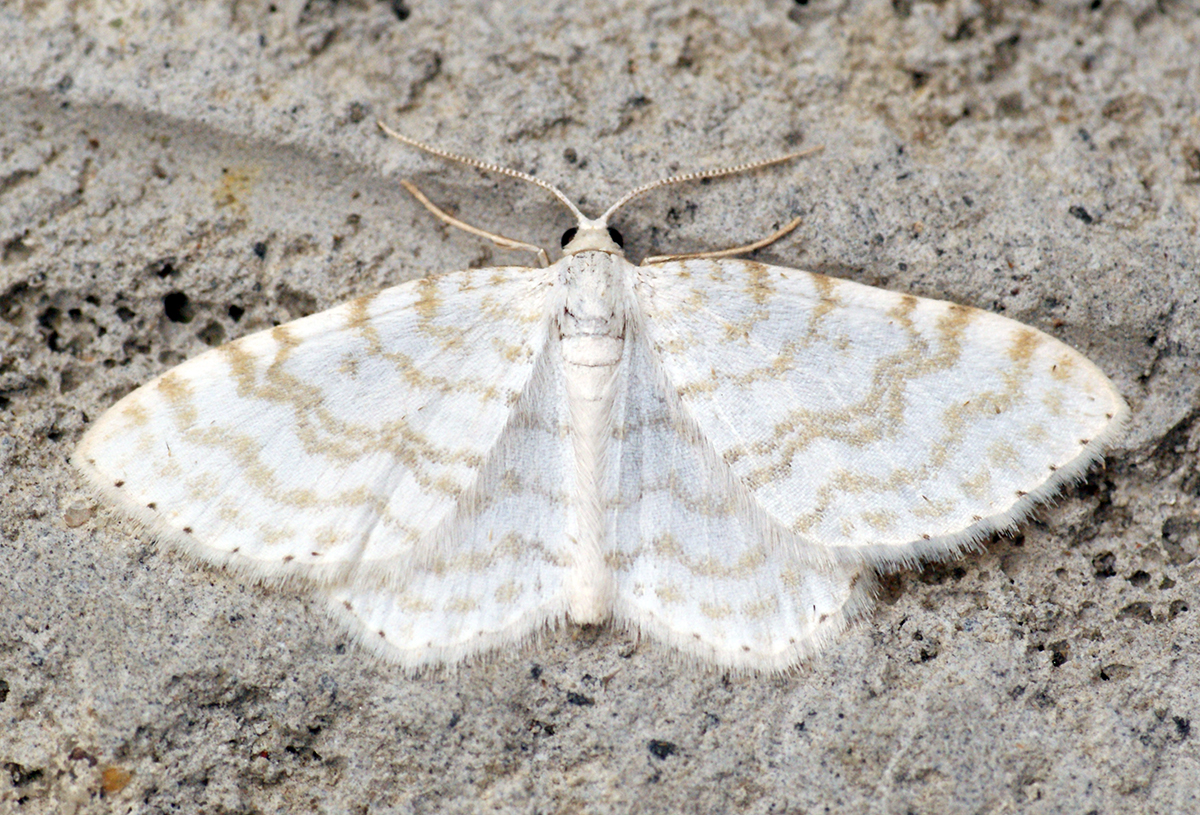 A Wave of moths I ran the trap again last night, and just recorded the species that weren't present on the previous night, there were just a few. Interestingly I hardly re-caught anything despite releasing the moths in the alleyway about 15 metres from my trap. Of note was a garden first Small White Wave, a year first Dwarf Cream Wave. A second Varied Coronet for the year was also very welcome, Catch Report - 16/06/14 - Back Garden Stevenage - 1x 125w MV Robinson Trap Macro Moths 1x Small White Wave [NFG] 1x Dwarf Cream Wave [NFY] 1x Willow Beauty 1x Double-striped Pug 1x Buff Ermine 1x Turnip Moth 2x Heart & Club 1x Common Marbled Carpet 1x Snout 2x Light Emerald 1x Small Emerald 1x Buff-tip Micro Moths 1x Udea prunalis